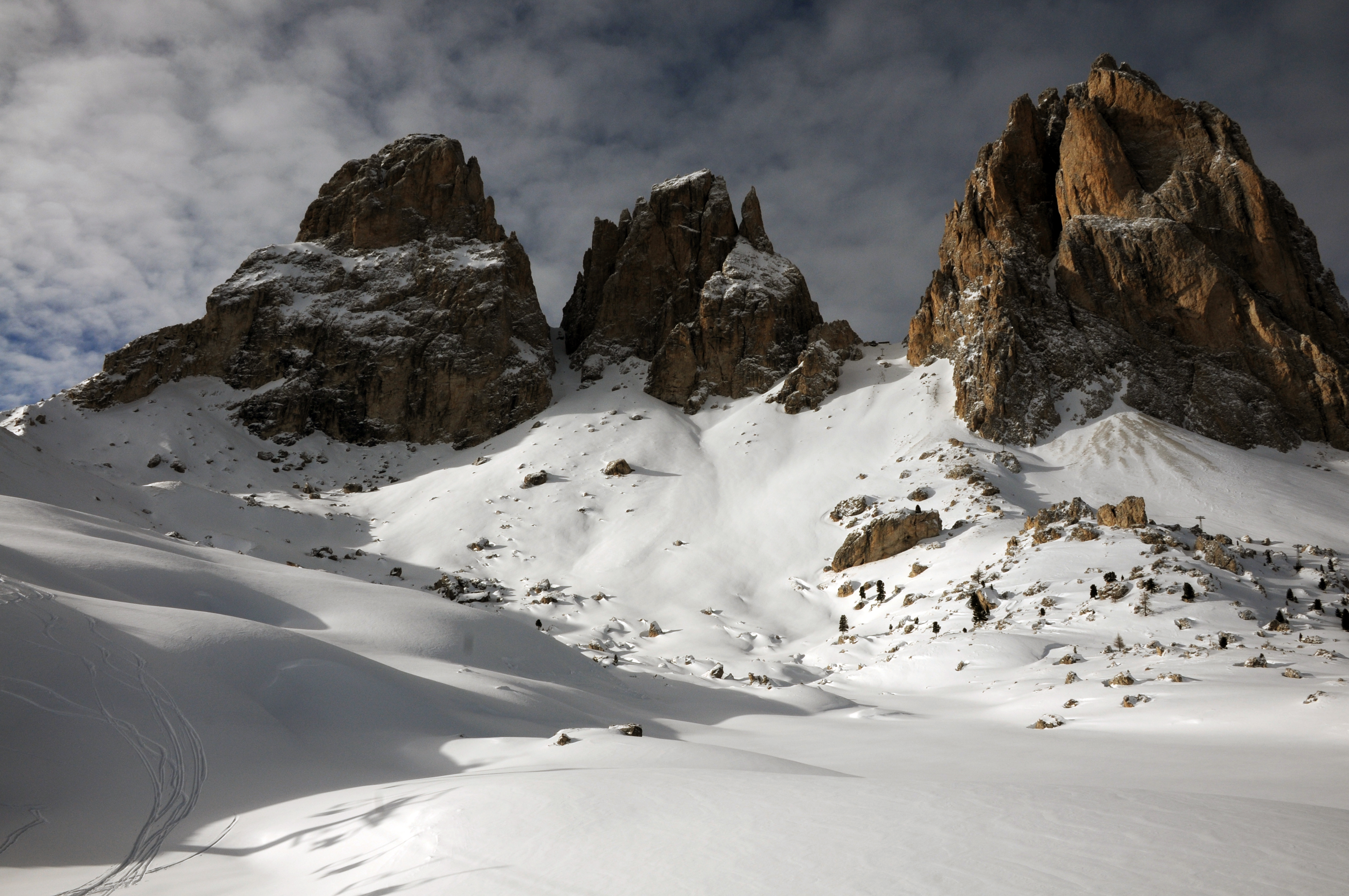 The Langkofel Group from the Sella pass. From left to right the Grohmann peak, the Fünffinger, the Langkofel Scharte and the Langkofel